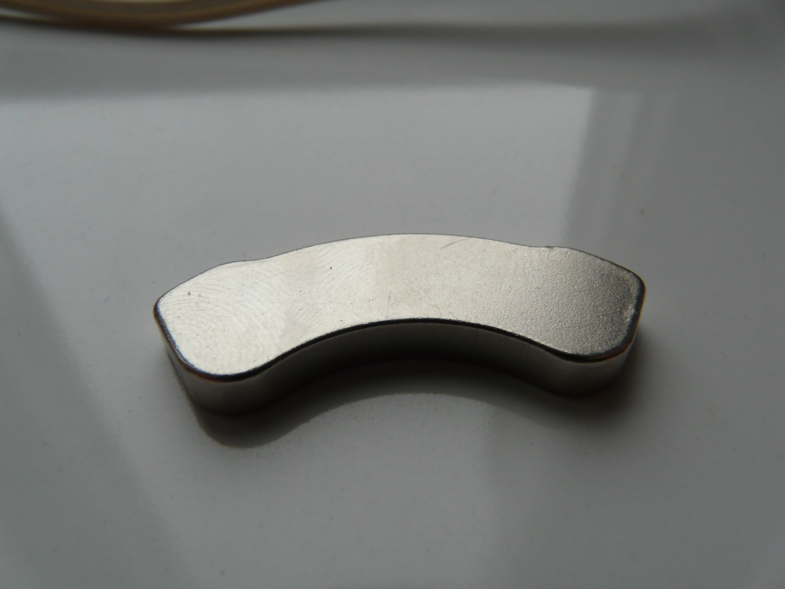 line motor magnet from hdd